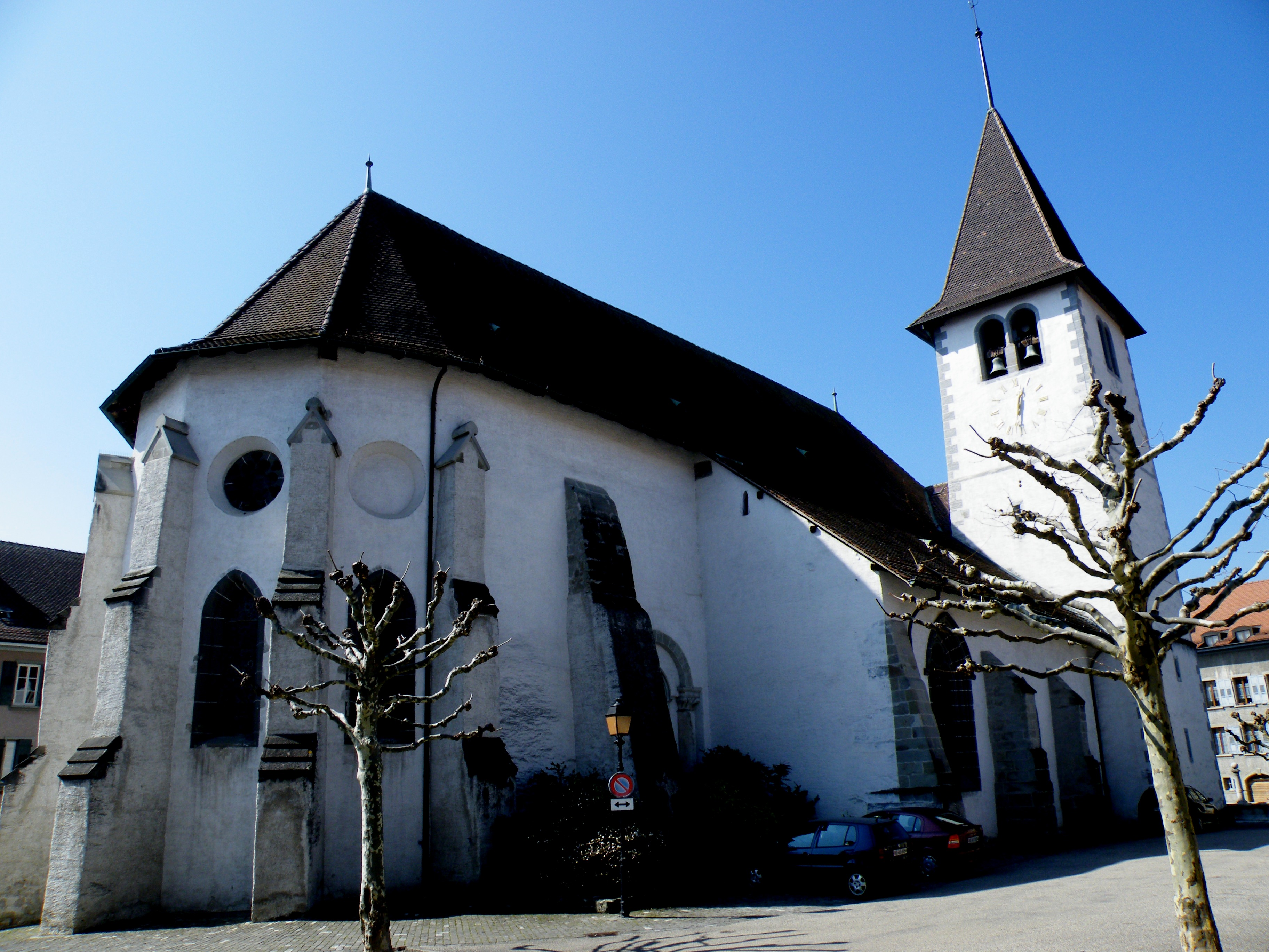 11th century church, Lutry, Switzerland